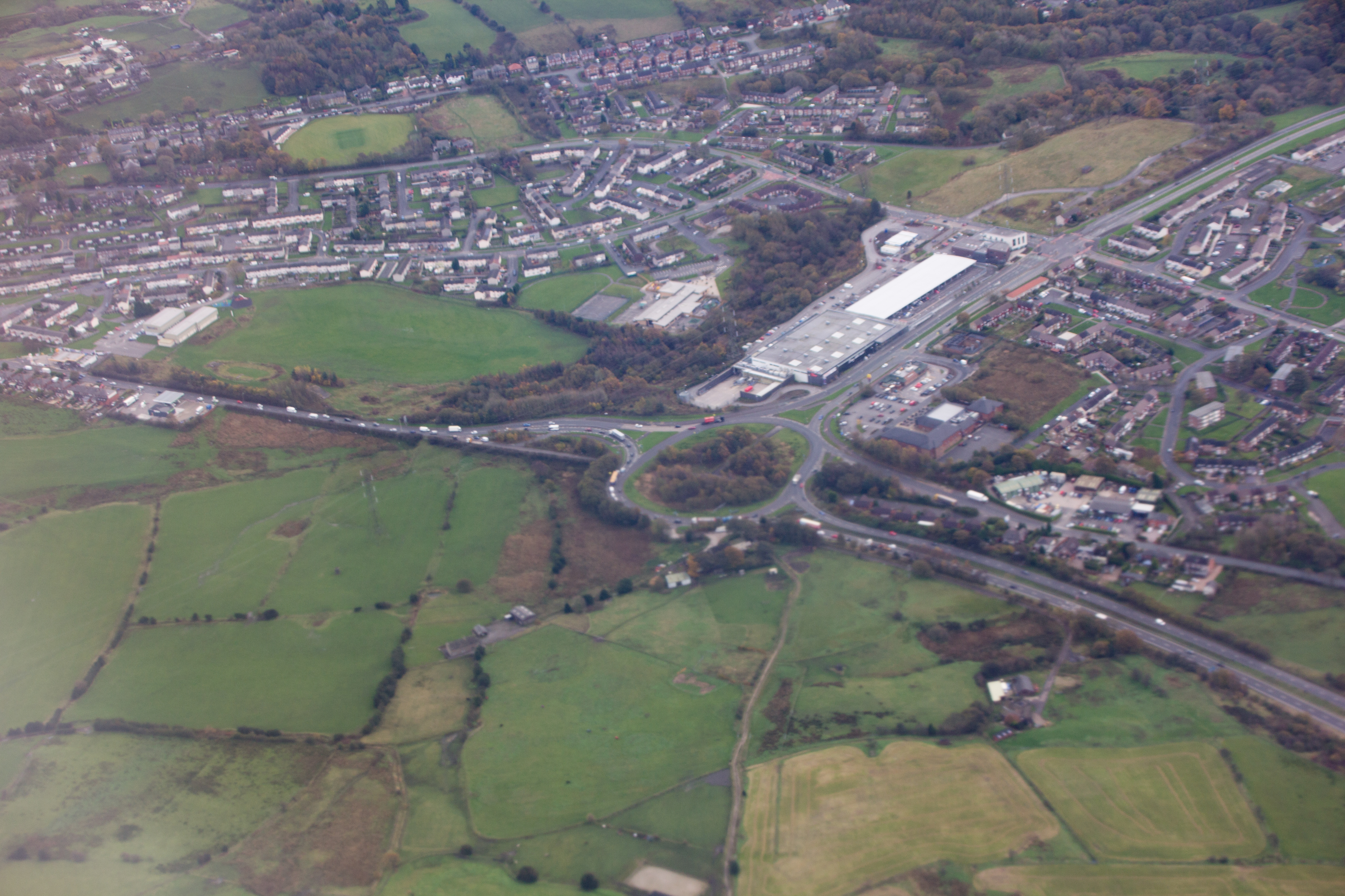 M67 to A57 junction from the air